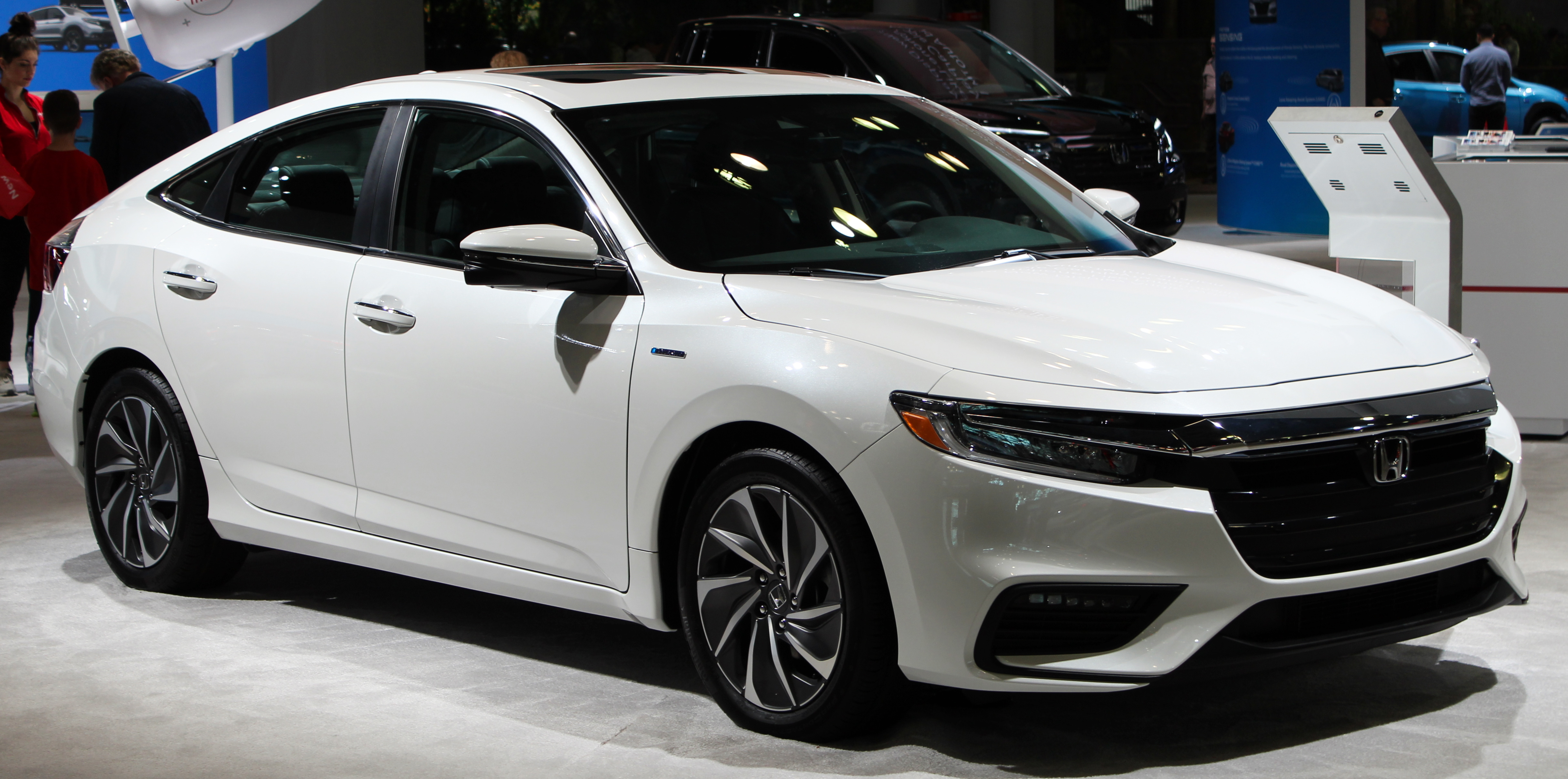 A 2019 Honda Insight Hybrid photographed during the 2019 New York International Auto Show, in Hudson Yards, Manhattan, NYC